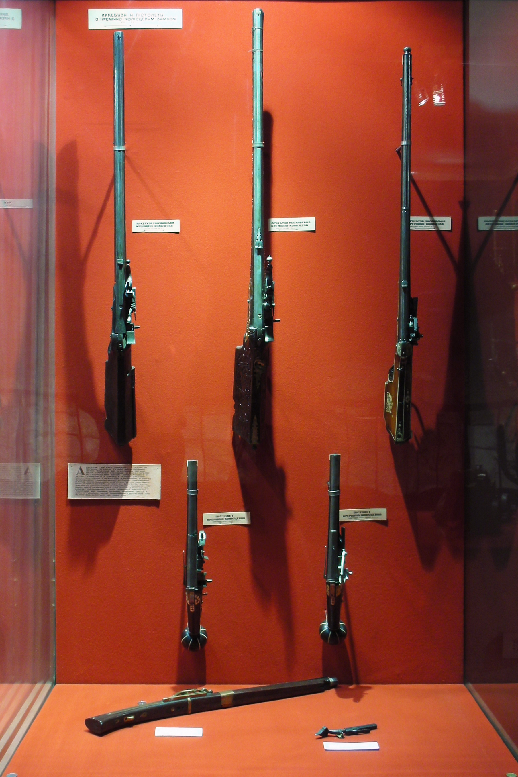 "Arsenal" Museum in Lviv (Ukraine).